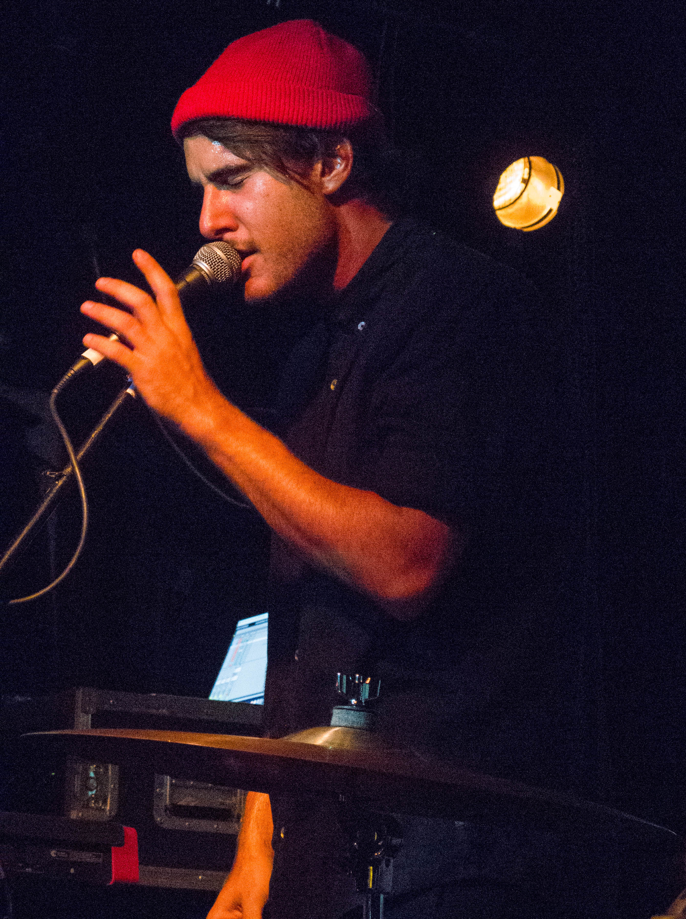 HalfNoise performing at The King's Arms, Auckland, New Zealand. 2 April 2015.